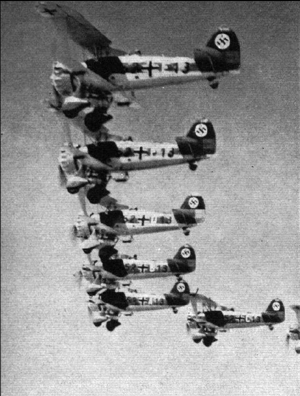 A squadron of German Luftwaffe Henschel Hs 123A in flight before the Second World War.